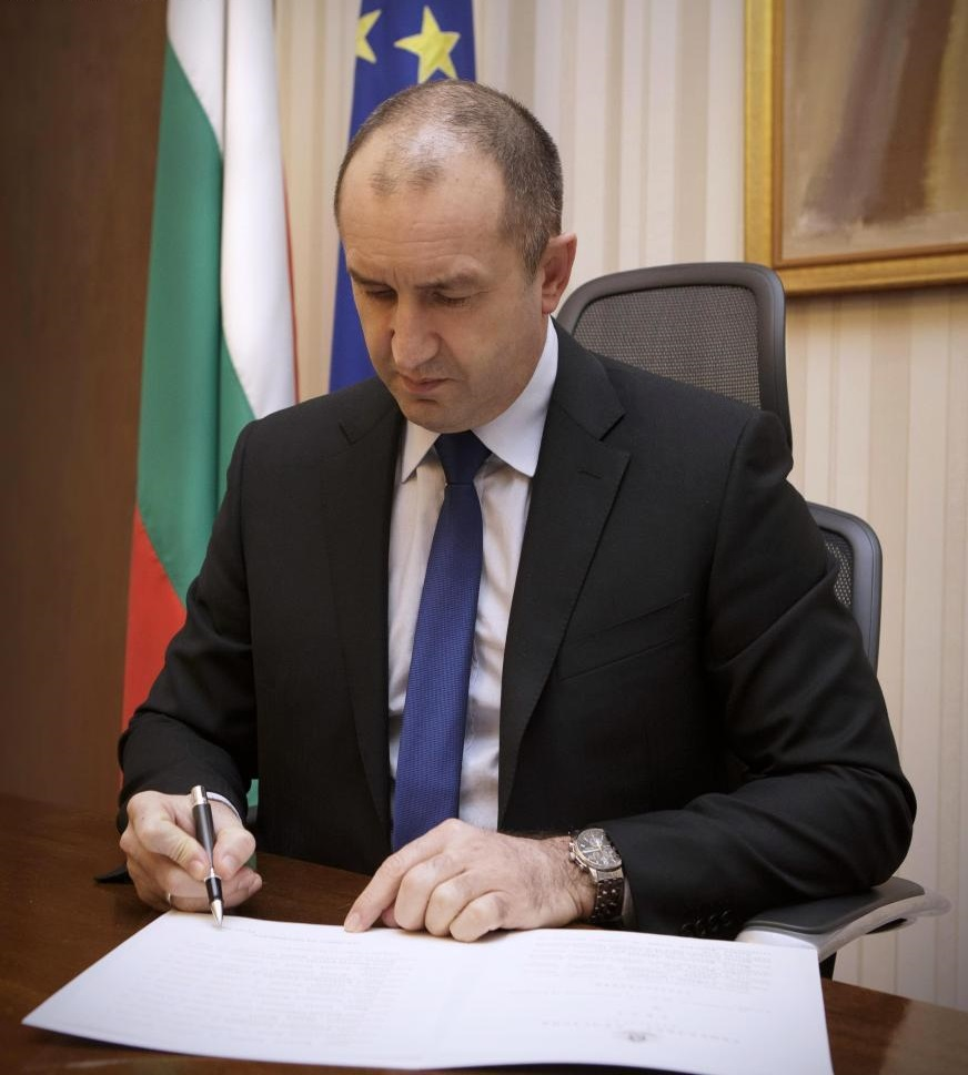 Bulgarian President Rumen Radev